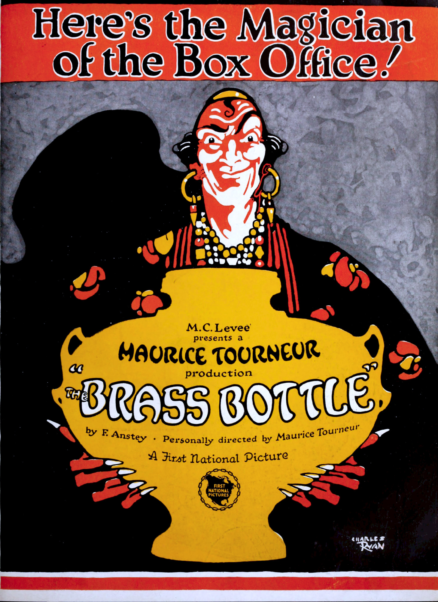 Advertisement from Motion Picture News for the American fantasy film The Brass Bottle (1923). This is a four page ad.